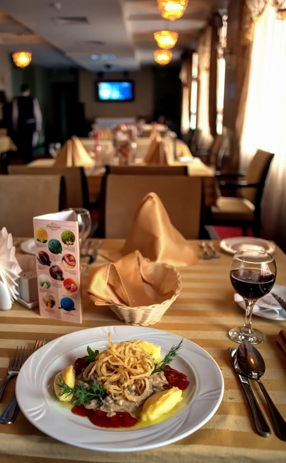 Stroganoff at Vyborg, hotel Vyborg